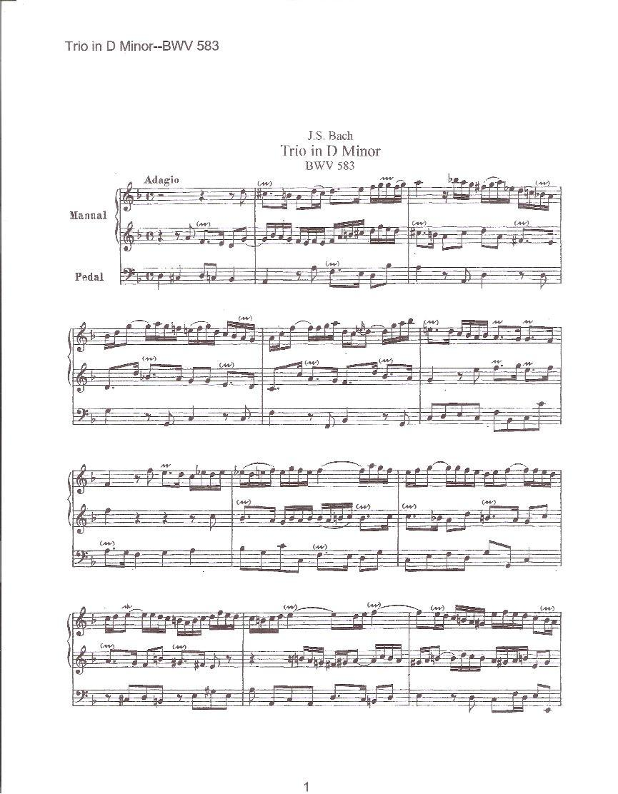 Trio for organ by Bach